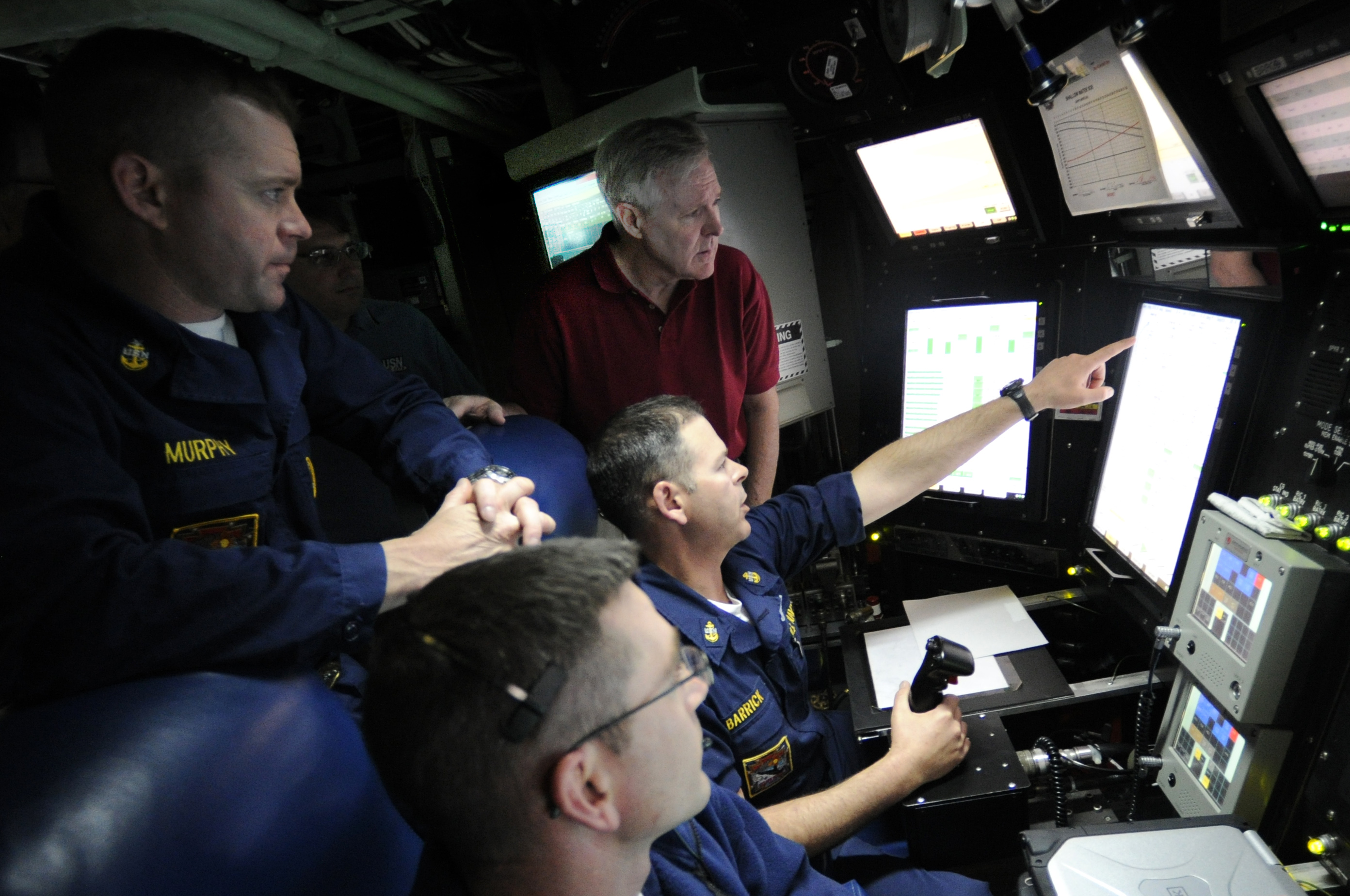 FORT LAUDERDALE, Fla. (May 11, 2010) Secretary of the Navy (SECNAV) the Honorable Ray Mabus observes Sailors navigating in the control room of the Virginia-class attack submarine USS New Mexico (SSN 779) as the boat gets underway. (U.S. Navy photo by Mass Communication Specialist 2nd Class Kevin S. O'Brien/Released)